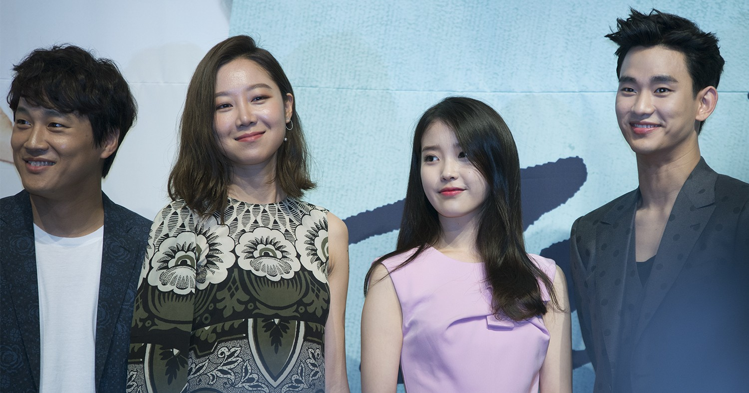 KBS "The Producers" press conference, 11 May 2015. Cha Tae-hyun, Gong Hyo-jin, IU and Kim Soo-hyun.